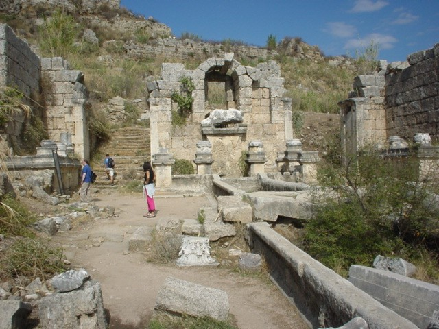 Ruins of the main street in Perga, capital of Pamphylia, Asia Minor.